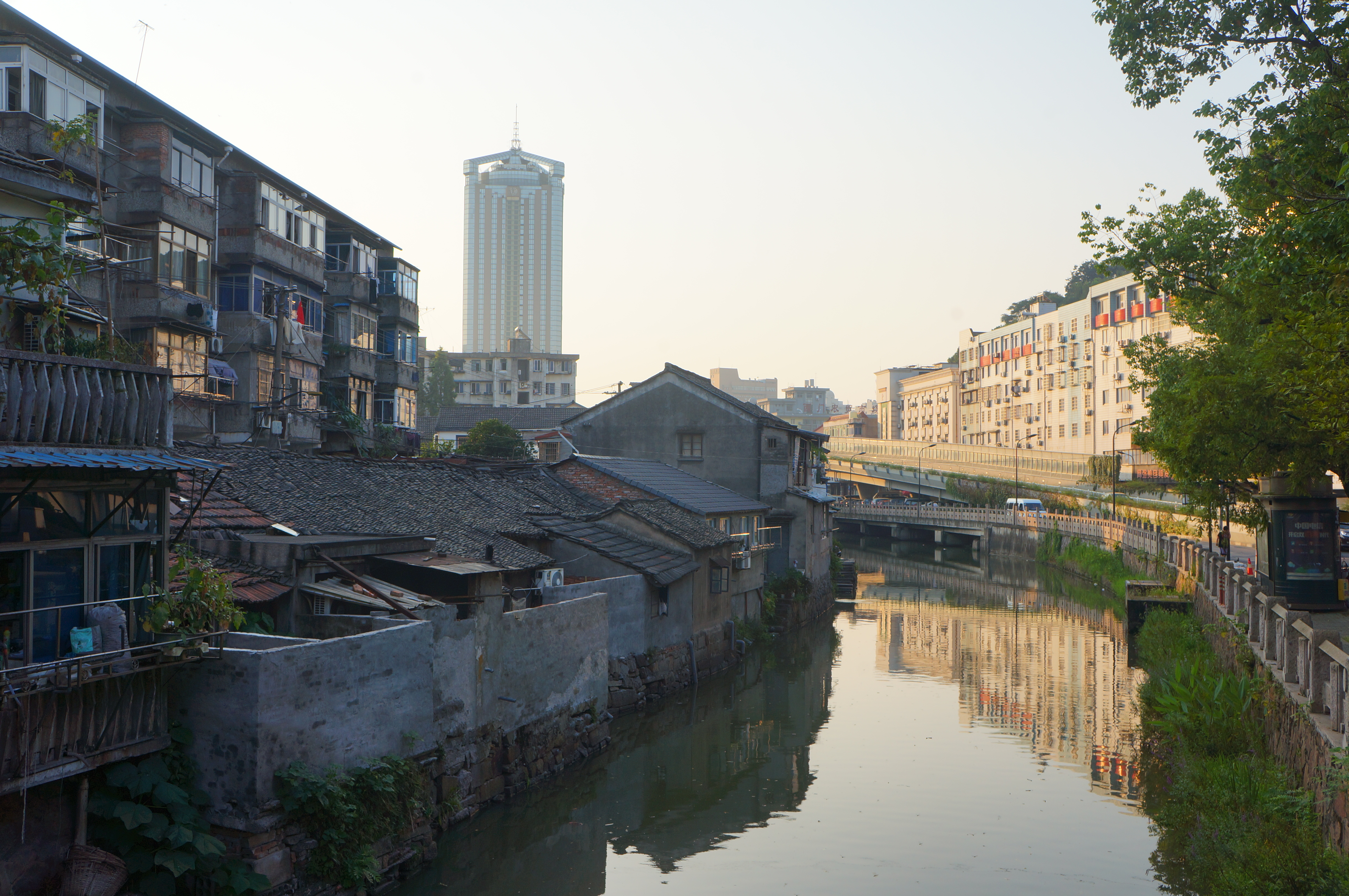 201607 Xiaoshan Moat (Chengxiang Jiedao)